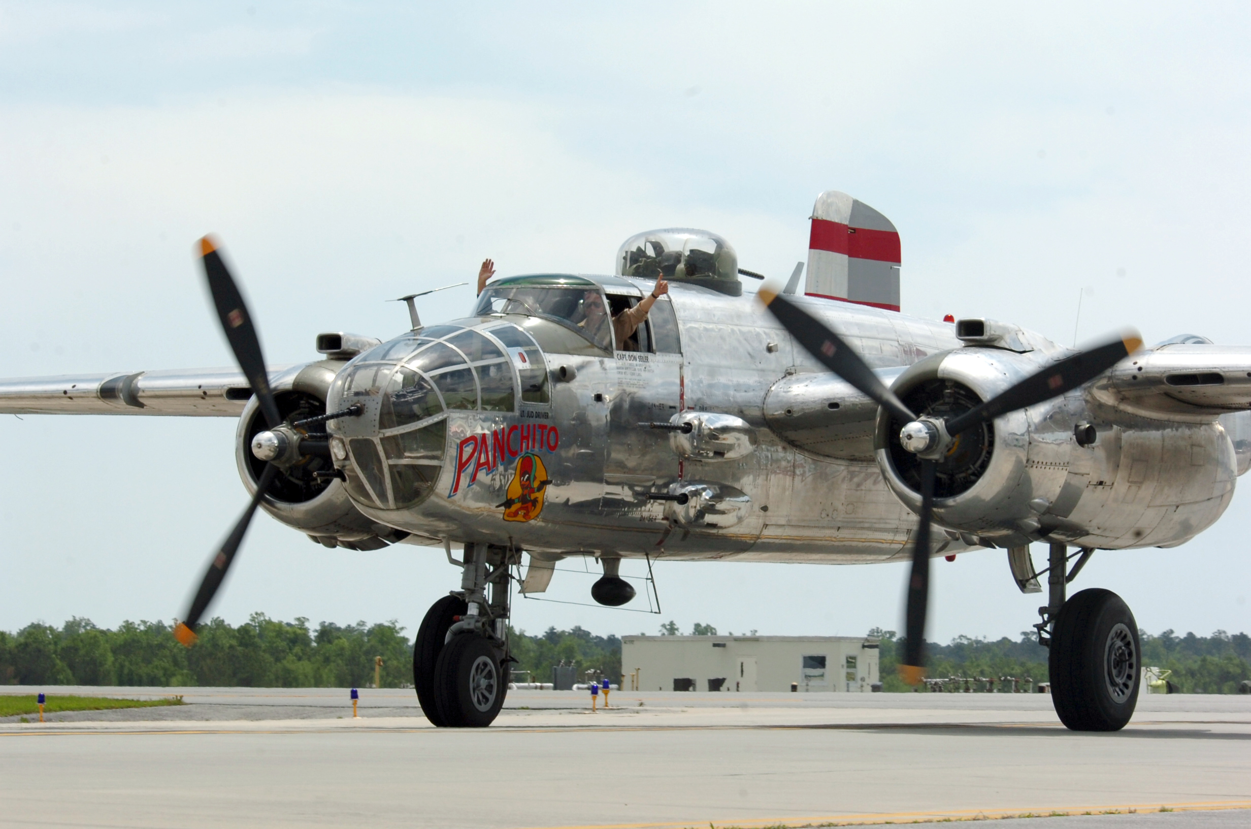 Rag Wings and Radials' B-25J is restored as "Panchito." It served with the 396th Bomb Squadron, 41st Bomb Group, 7th Air Force, stationed in the Central Pacific. In April 18, 1942, sixteen B-25s, under the command of U.S. Army Air Corps Lt. Col. James "Jimmy" Doolittle, attacked Tokyo and other Japanese cities in a daring raid. Photo by: Cpl. Ezekiel R. Kitandwe Photo ID: 2006519125849 Submitting Unit: MCAS New River Photo Date:05/15/2006